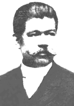 Marcelo H. del Pilar, The Great Propagandist of the Philippine Revolution (partially darkened subversion of source image)